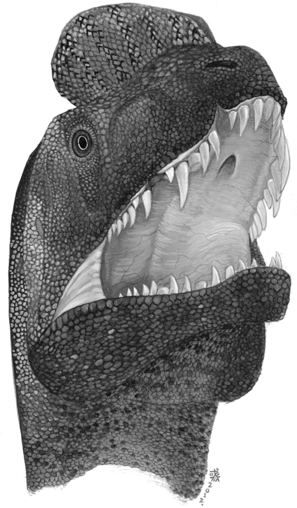 Life reconstruction of Sinosaurus triassicus with dental abnormality based on ZLJT01.